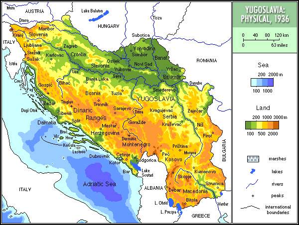 Yugoslavia 1936 physical